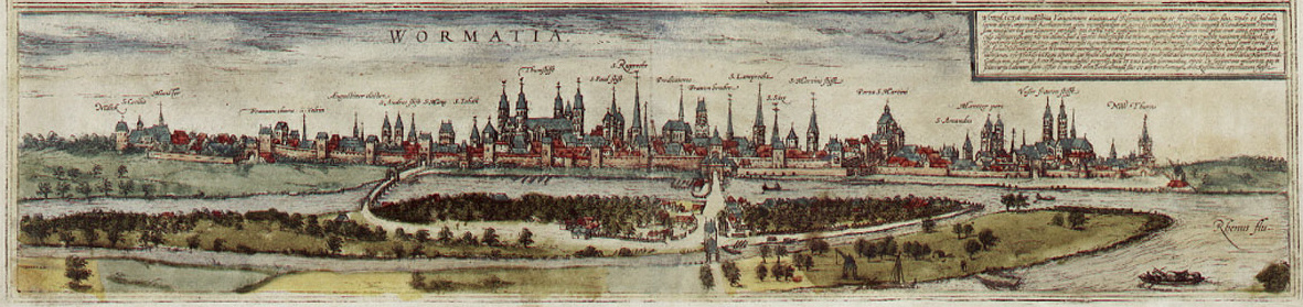 Worms